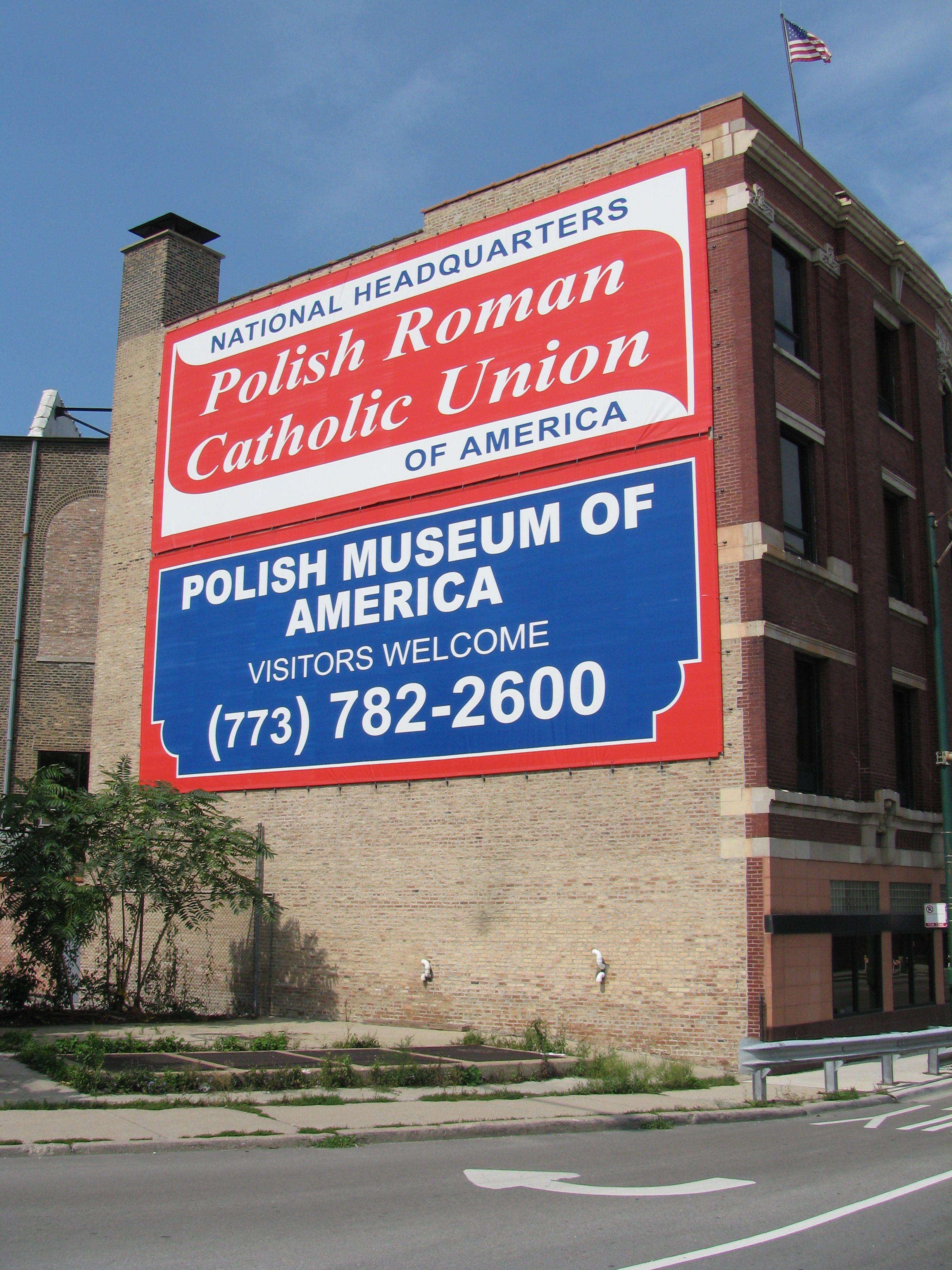 Polish Museum of America Category:Images of Chicago, Illinois